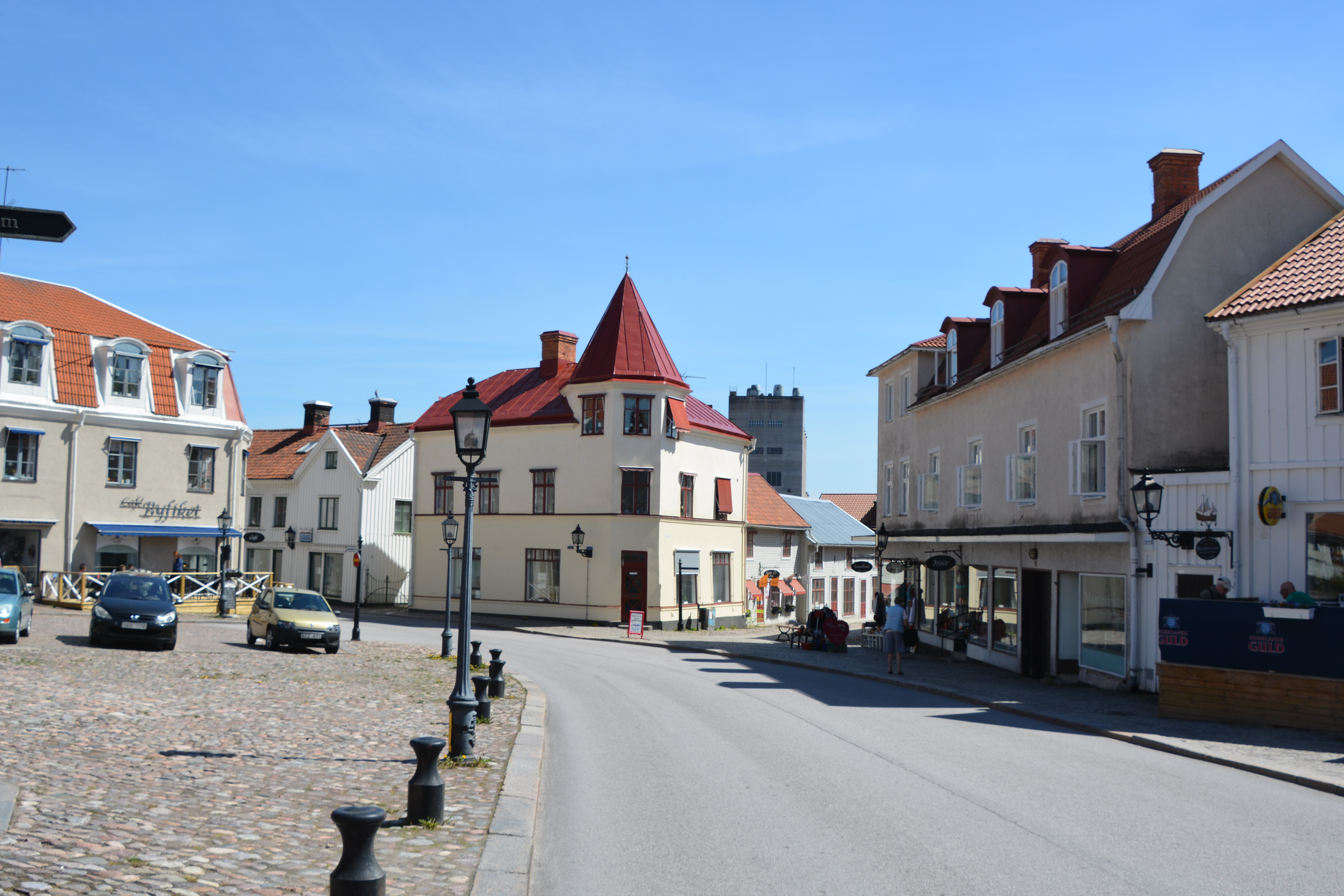 Torget i Gamleby 2017